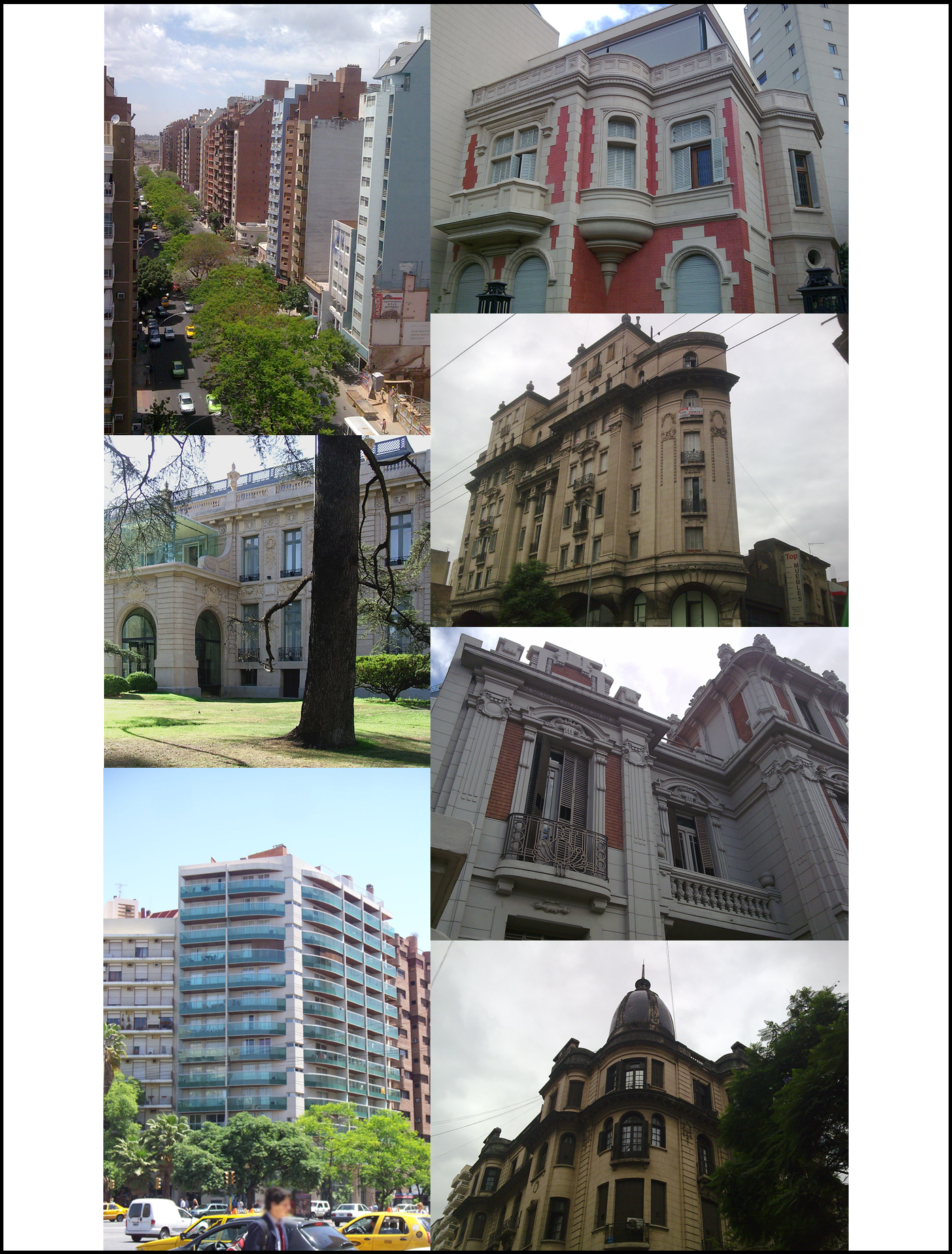 Images montage of buildings showing architectural styles in Córdoba, Argentina.